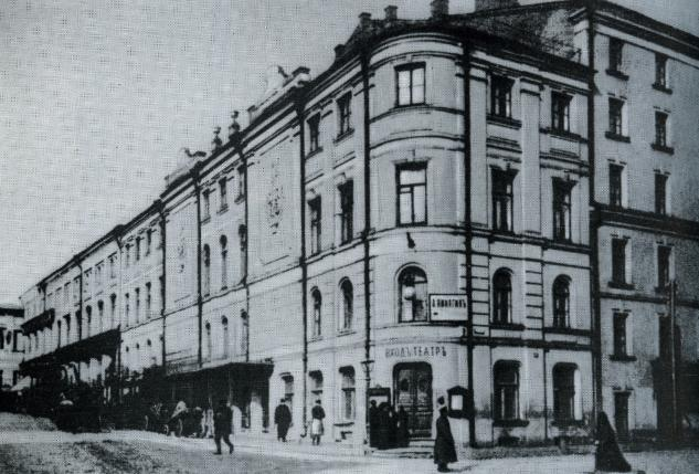 Entrance to the Solodovnikov Theater